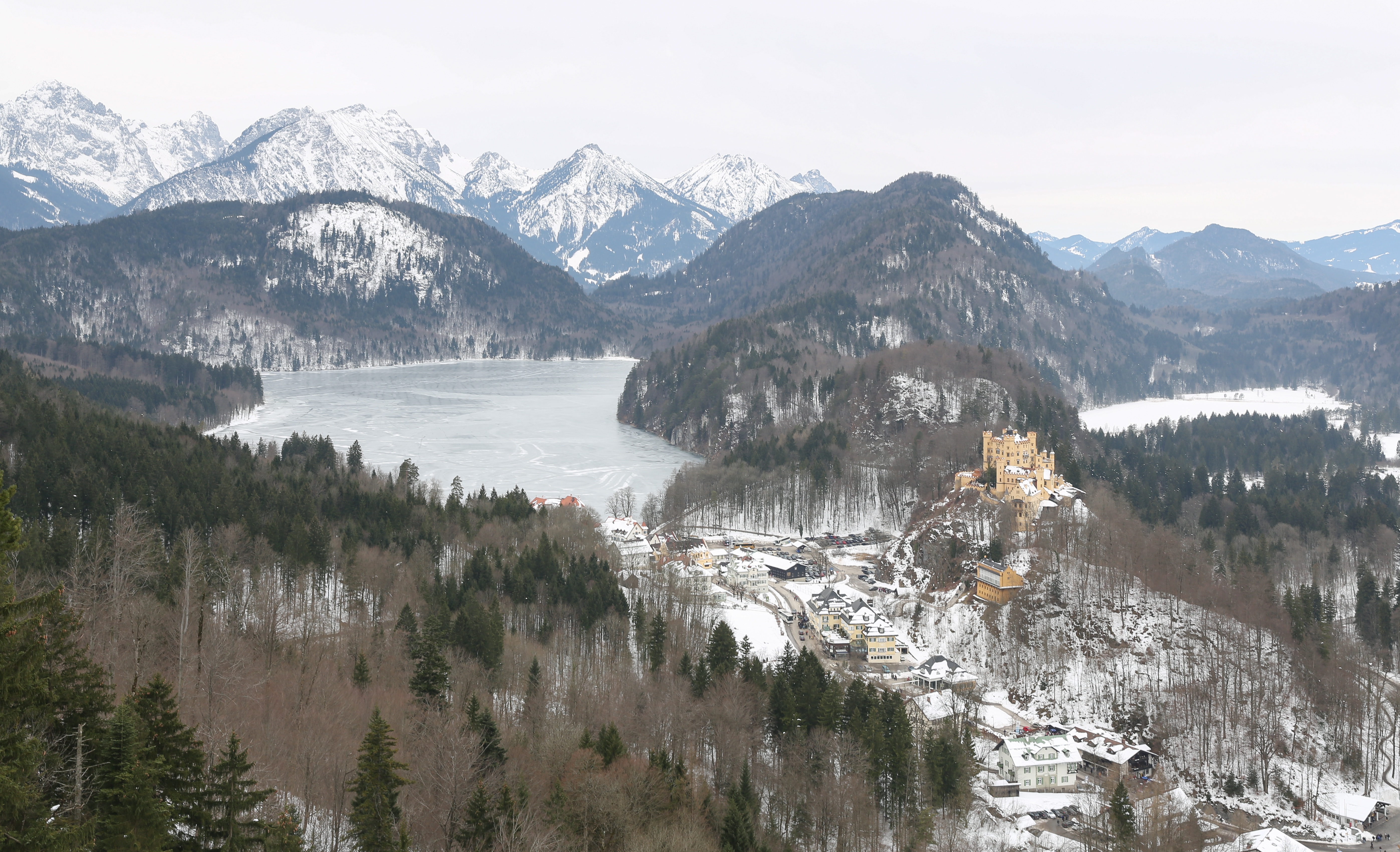 Alpsee and Hohenschwangau, Schwangau, Germany